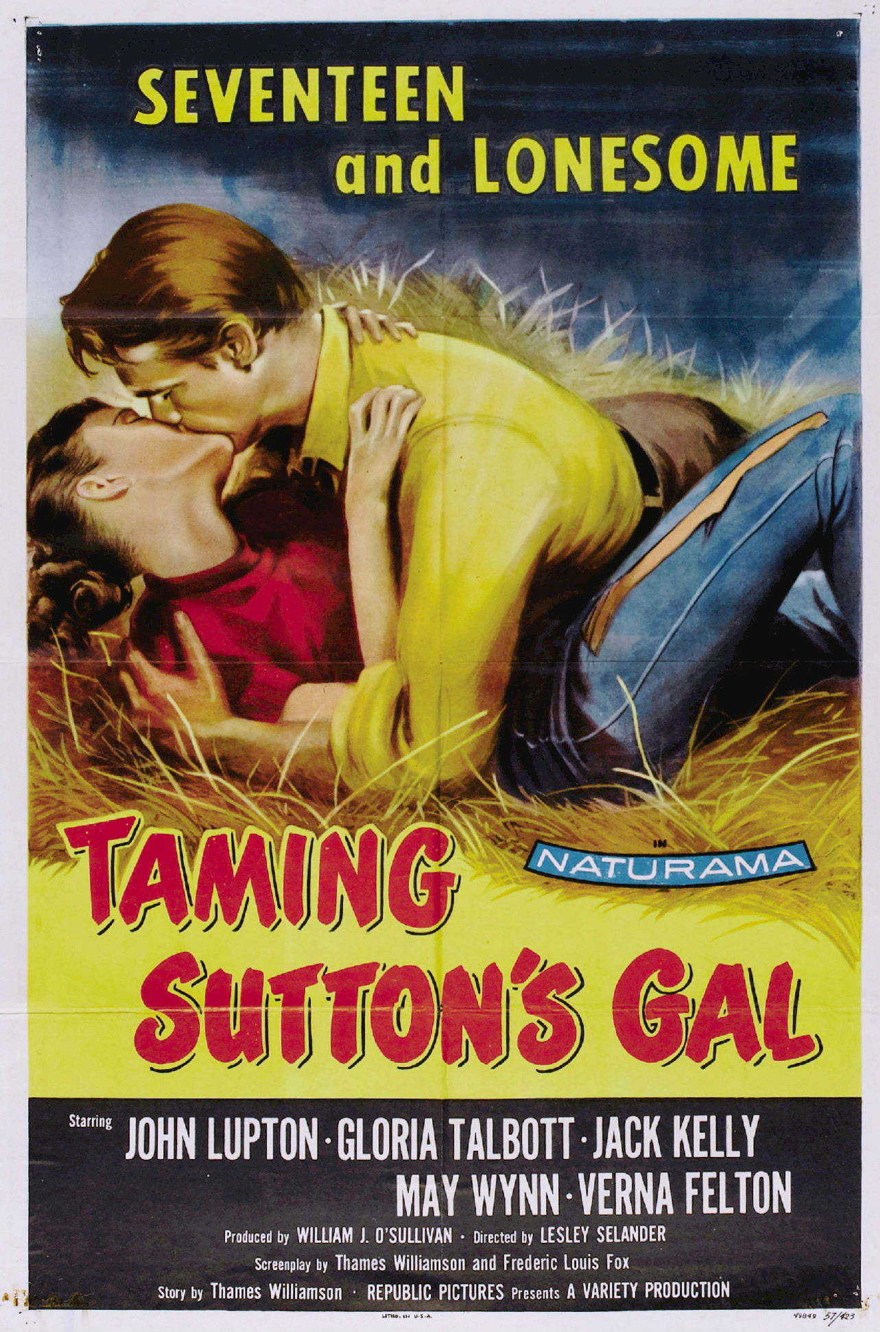 Poster for the 1957 film Taming Sutton's Gal. There are no copyright marks. At bottom is Litho in USA and 49849 57/423.